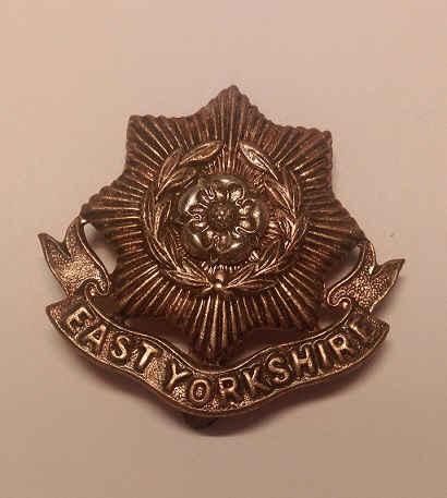 Photo of East Yorkshire Cap Badge from personal collection